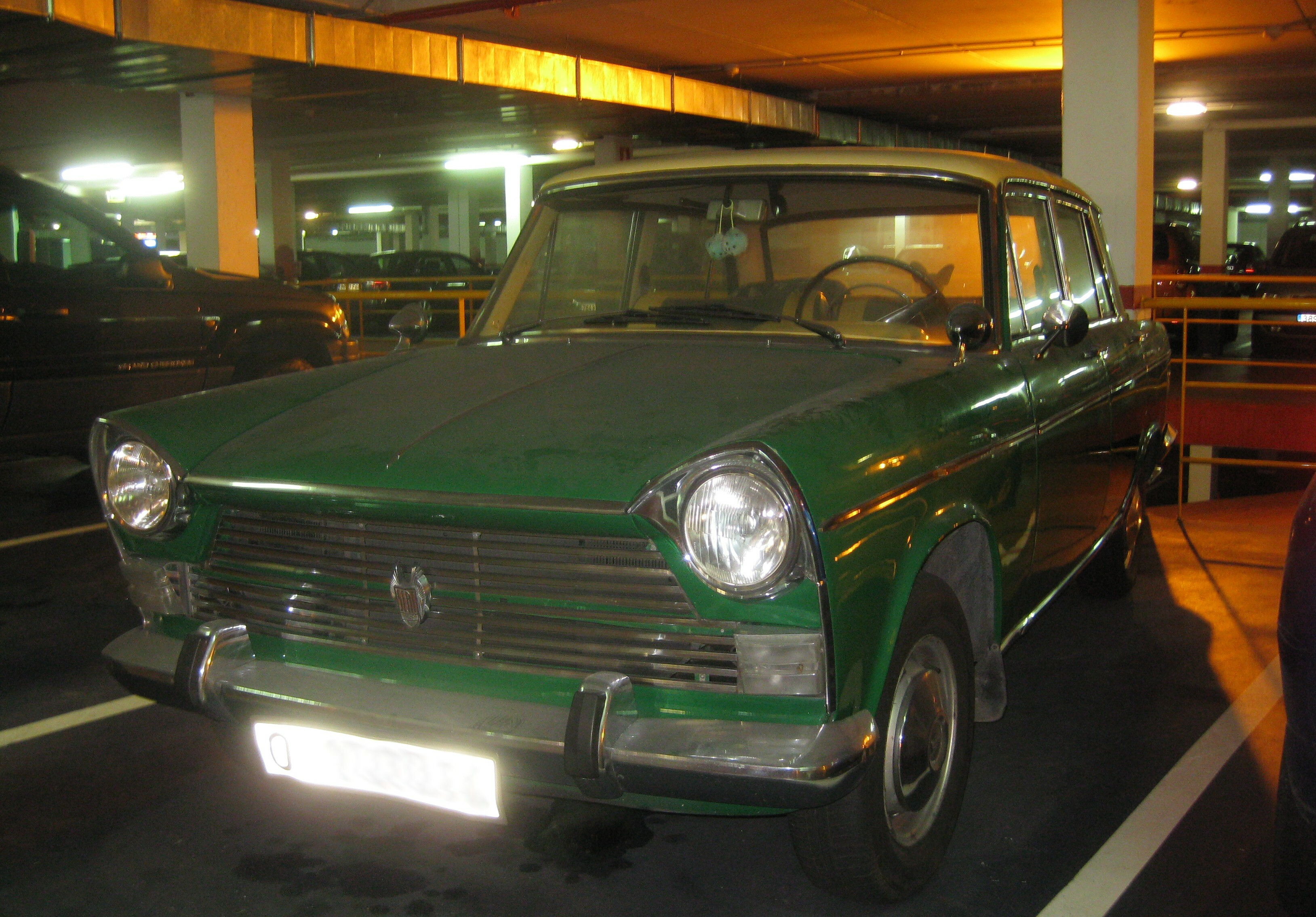 Very nicely well kept 1500 that judging by the dust on the bonnet I'd say hasn't been moved for a time now. Seen inside of an underground car park in Gijón (Asturias). 1968 plate from Oviedo (Asturias).